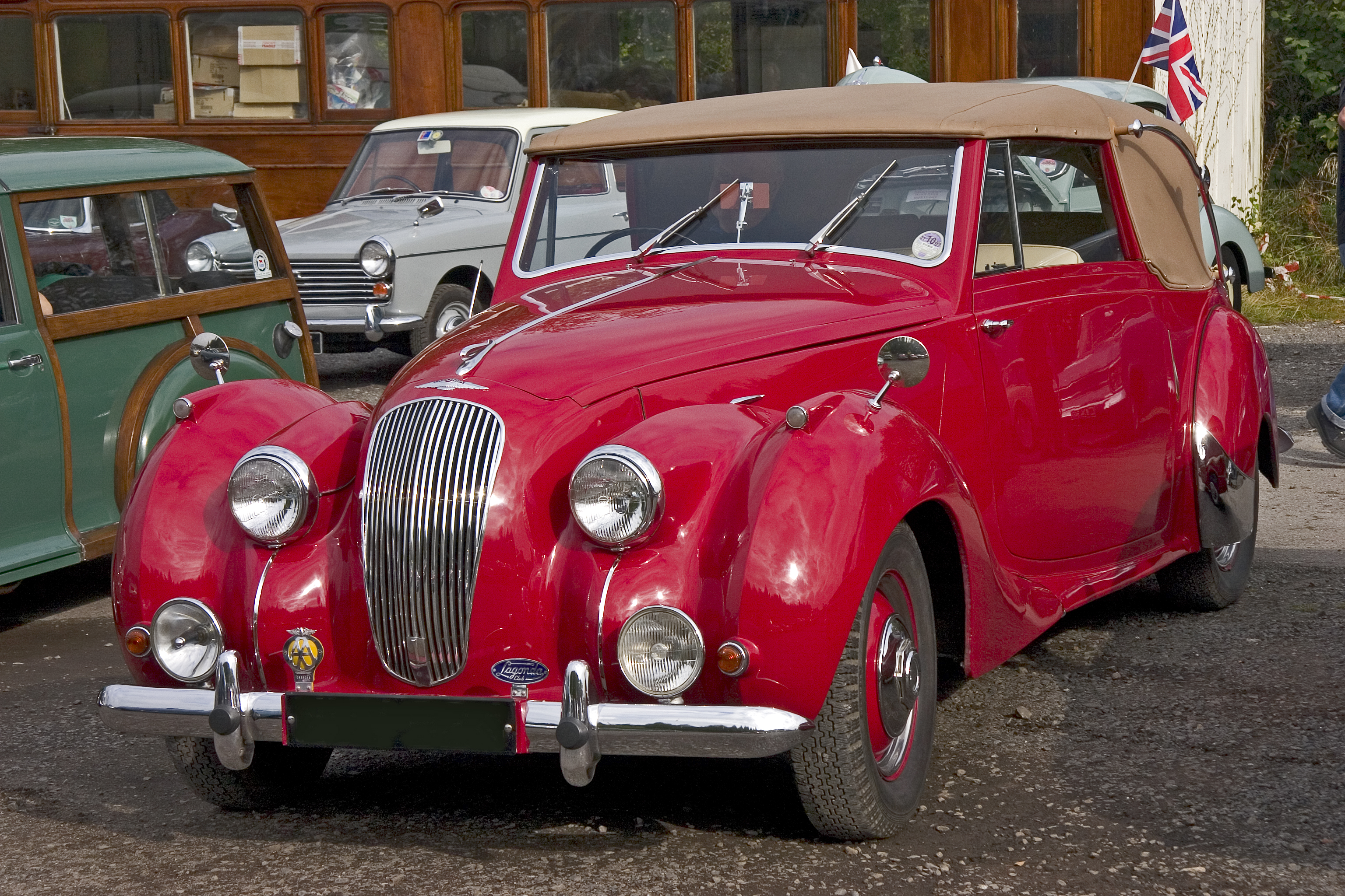 In 1948 David Brown bought the struggling Lagonda company and acquired with it the beautiful Walter Owen Bentley-designed 2.6litre 6-cylinder engine which powered this car (and became the basis of Aston Martin DB2-4 engines).